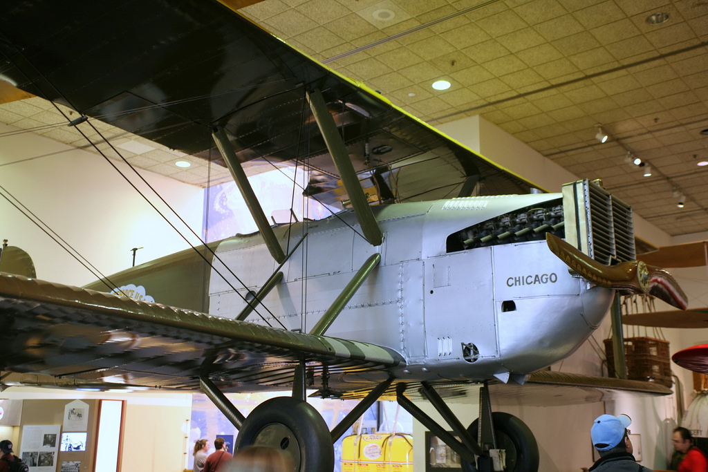 The Douglas World Cruiser "Chicago" displayed the National Air and Space Museum.